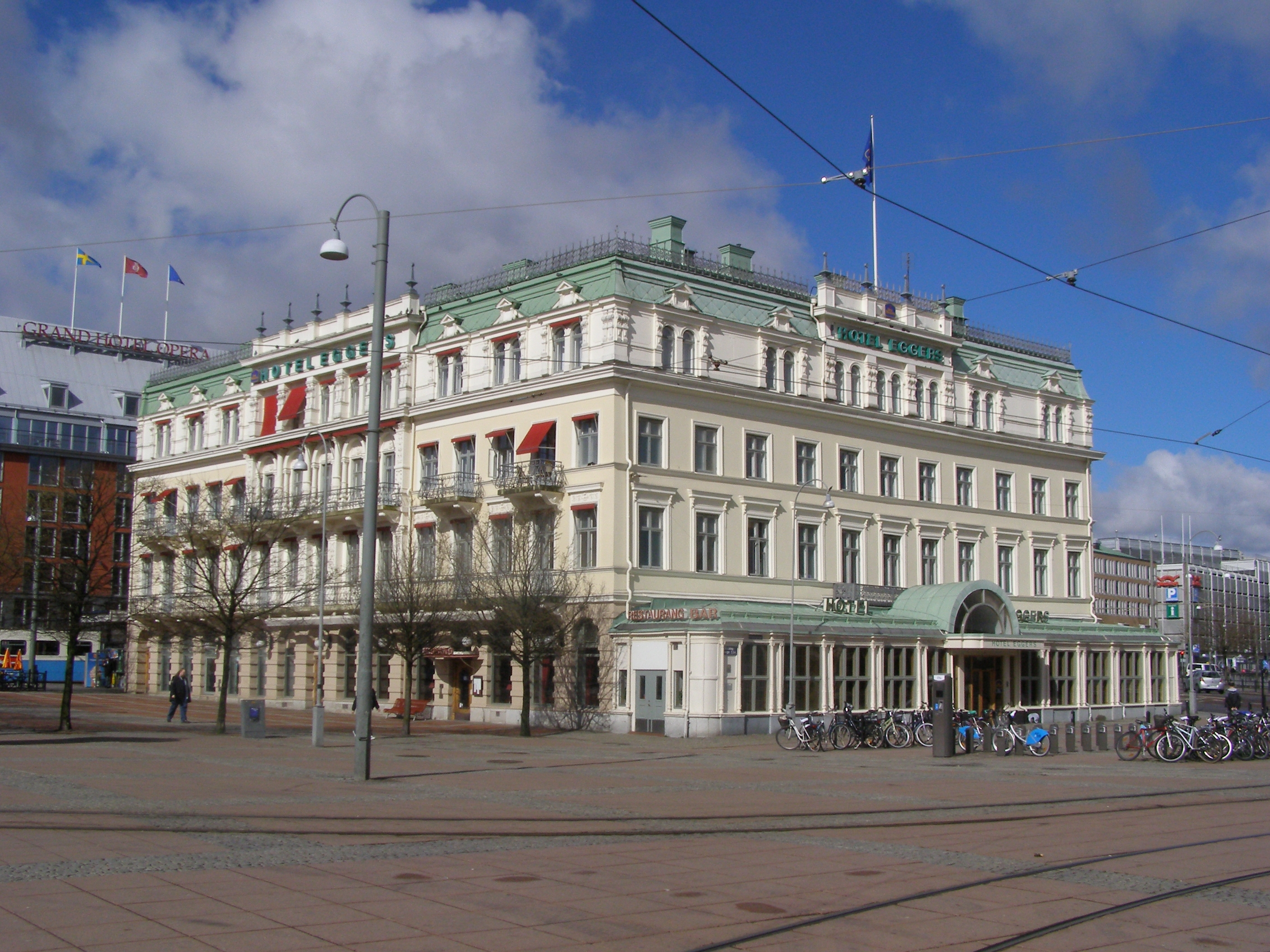 Gothenburg - Hotel Eggers